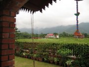 Garhwal provides tourists with splendid views, peace and tranquility!